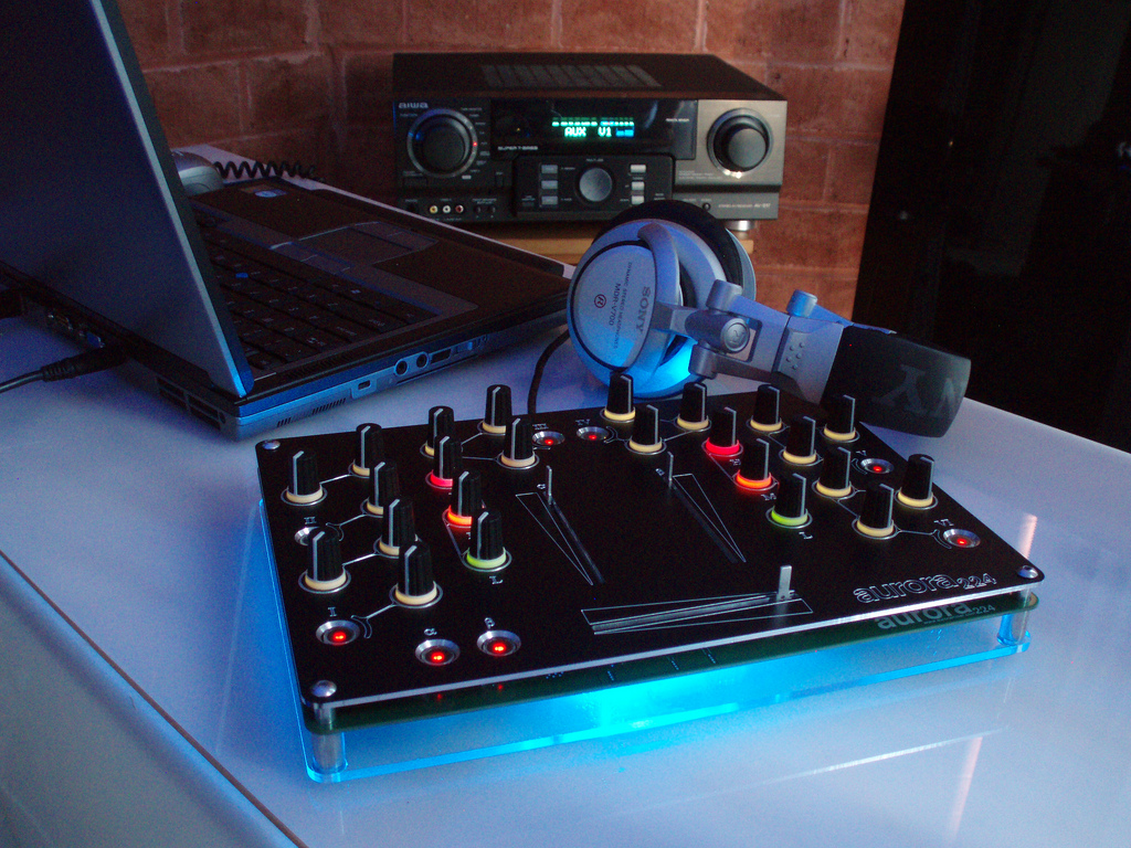 aurora 224: a 2 channel open source DJ mixer featuring 24 analog potentiometers, three linear sliders, and 8 buttons with LED feedback.